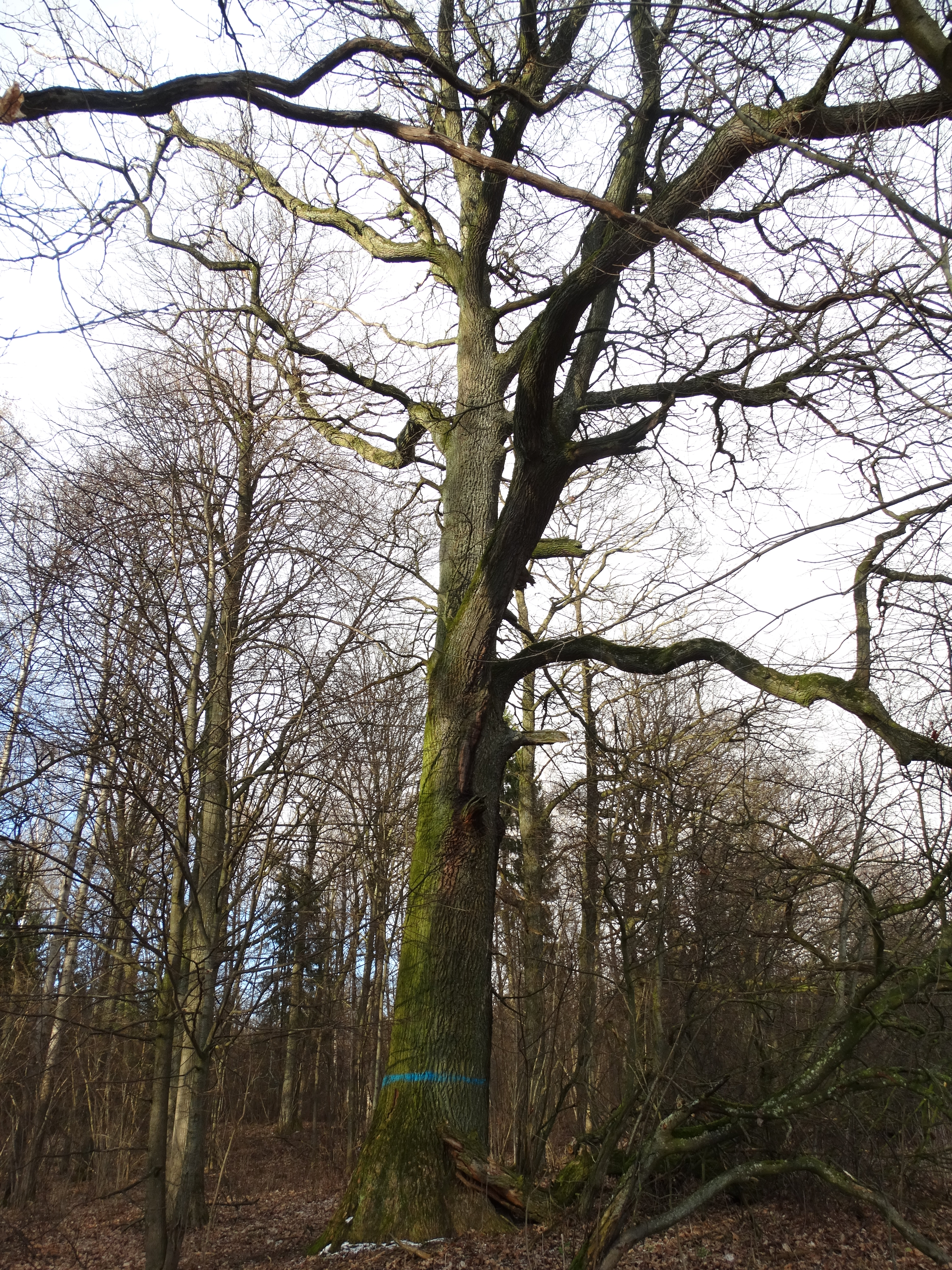 Šilas Forest Oak, Jonava District, Lithuania